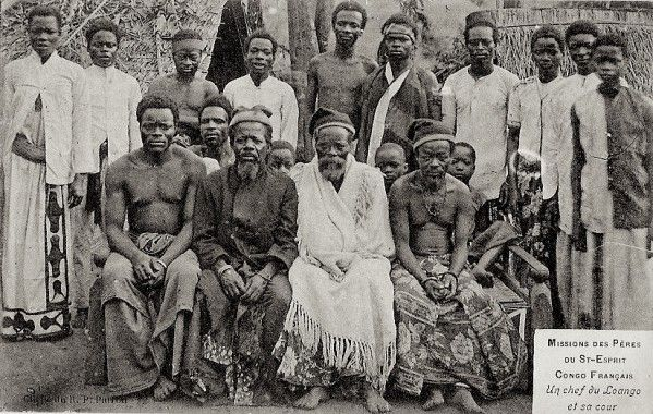 A chief of Loango and his court. This postcard gives us an idea of the attire of the court of notable